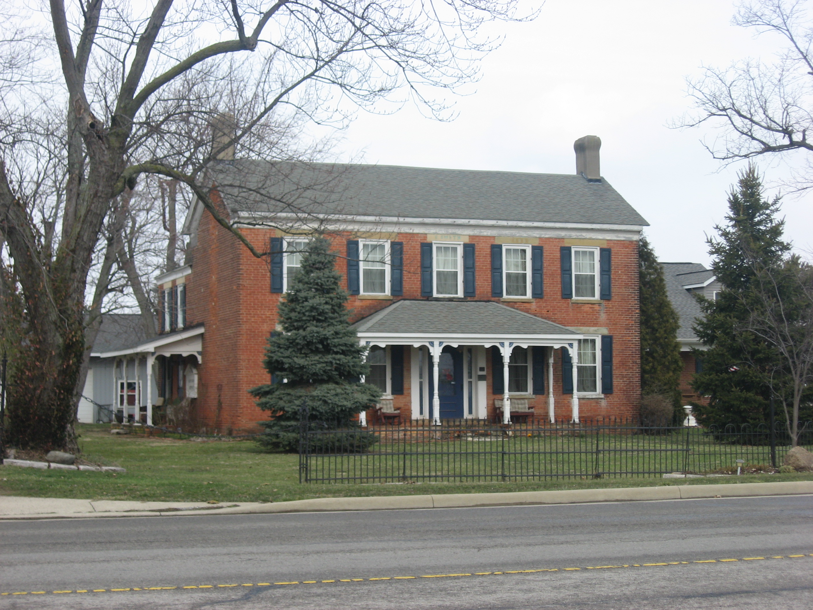 Front and southwestern side of the Edward Smith, Jr., Farmhouse, located at 2085 E. U.S. Route 62/State Route 3 immediately northeast of Washington Court House in Union Township, Fayette County, Ohio, United States. Built in 1855, it is listed on the National Register of Historic Places.